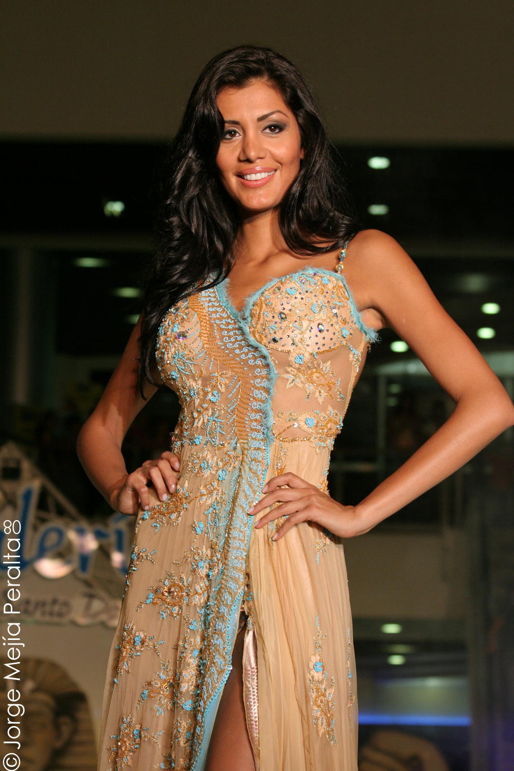 Samantha Tajik the Miss Universe Canada, 2008.